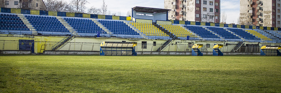 Detelinara Stadium